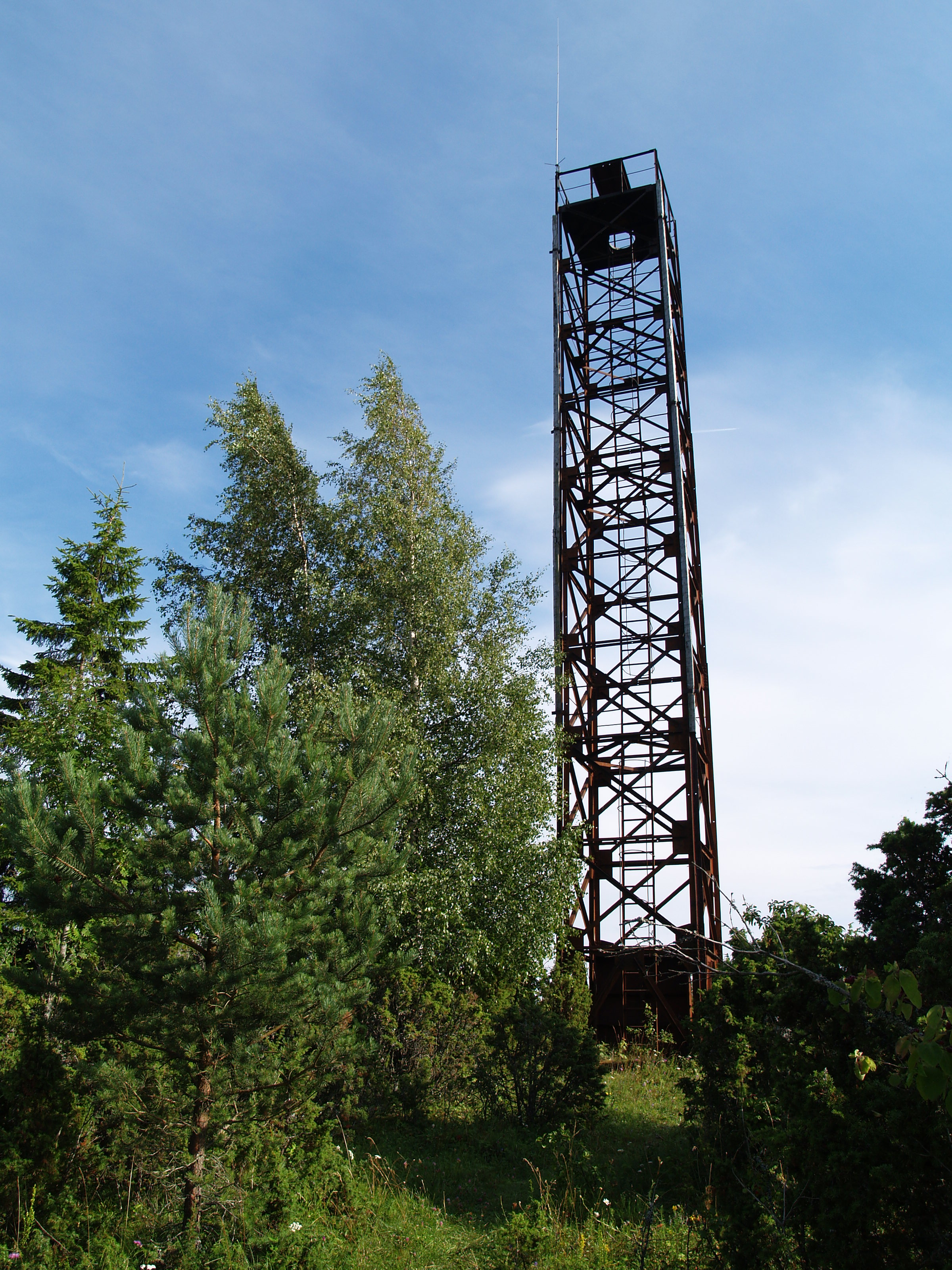 Kesselaid, Estonia. 21 meters hight metal frame tower used for navigation was built in 1957.